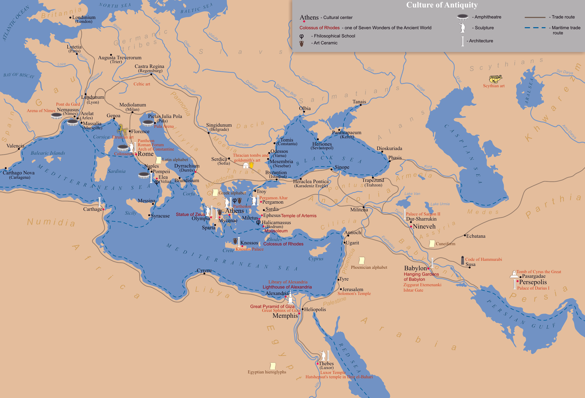 Culture of Antiquity